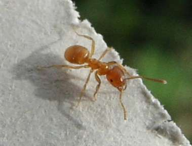 Lasius flavus (Yellow meadow ant) on a meadow in Cologne, Germany.